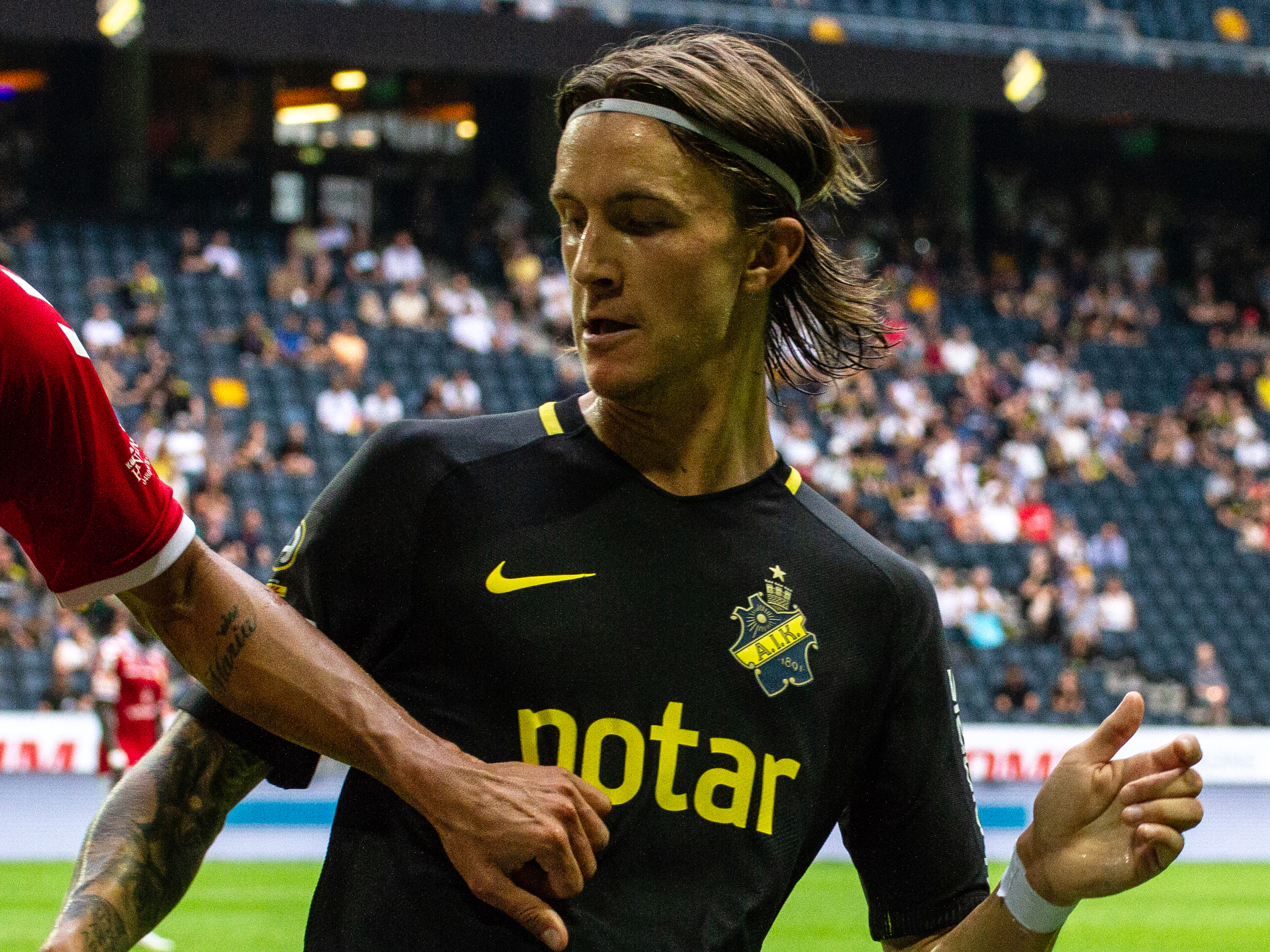 Kristoffer Olsson in July 2018